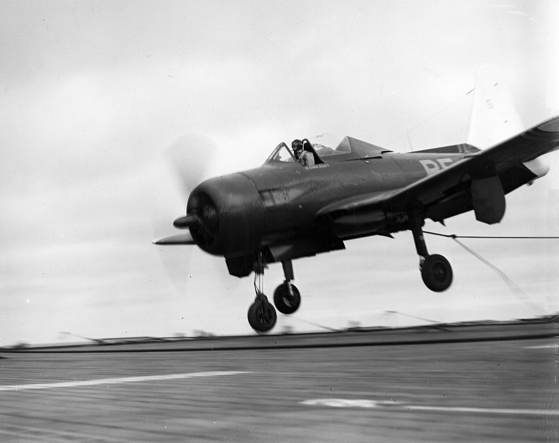 A U.S. Navy Ryan FR-1 Fireball from fighter squadron VF-41 landing on the escort carrier USS Bairoko (CVE-115) just before the nose gear collapsed, 13 March 1946.